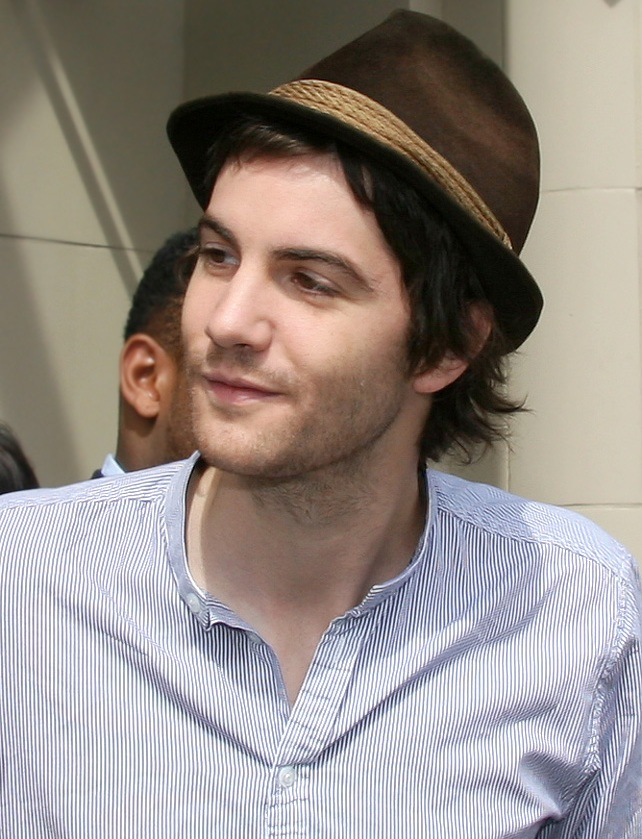 Jim Sturgess at the 2008 Toronto International Film Festival